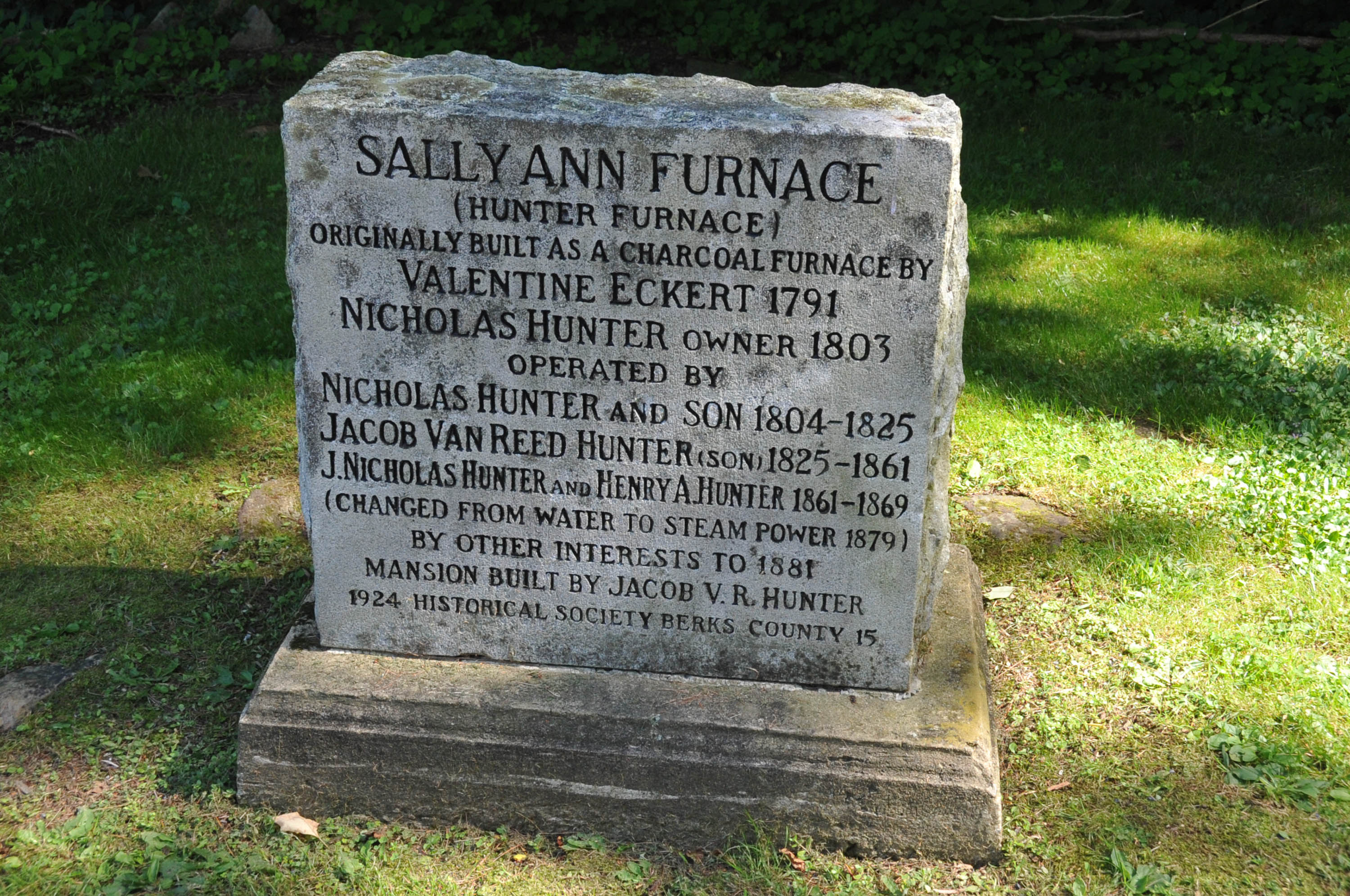 CHARCOAL FURNACE BUILT BY VALENTINE ECKERT IN 1791. THE FURNACE IS IN RUINS AS ARE MOST OF THE OTHER BUILDINGS OIN THE SITE